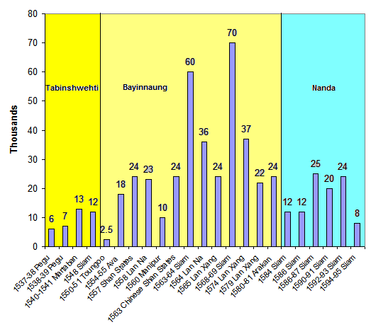 The Royal Burmese Army's mobilization per campaign in the Toungoo Empire period (1530-1599) -- Source: Hmannan Yazawin (The Glass Palace Chronicle) The figures are only those who were mobilized to the front; they do not include Palace Guards and Capital Guards who stayed behind. Minor campaigns and campaigns without an explicit mention of numbers are not included.